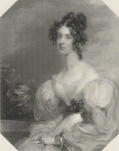 Lady Elizabeth Grey (d.1880), 2nd daughter of Charles Grey, 2nd Earl Grey (1764–1845) and wife of John Crocker Bulteel (1793-1843) of Fleet, Holbeton, in South Devon, Whig MP for South Devon 1832-4 and Sheriff of Devon in 1841. Stipple engraving by Henry Bryan Hall, after William Say , published 1841; 13 1/4 in. x 10 3/8 in. (336 mm x 262 mm) plate size; 16 3/4 in. x 12 3/8 in. (424 mm x 314 mm) paper size. National Portrait Gallery, London, NPG D32379, purchased 1966